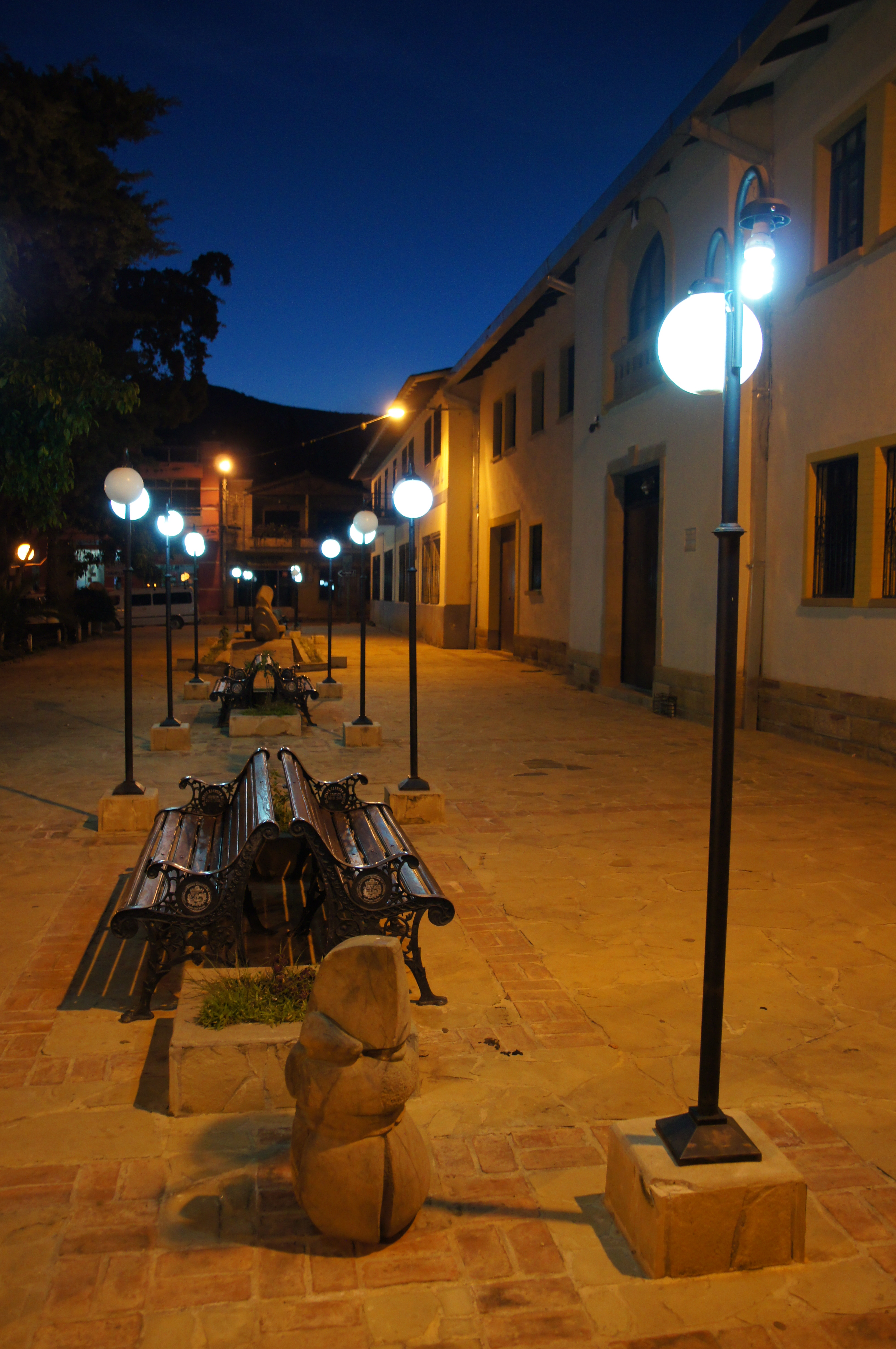 The Plaza at sunset, Samaipata, Bolivia.